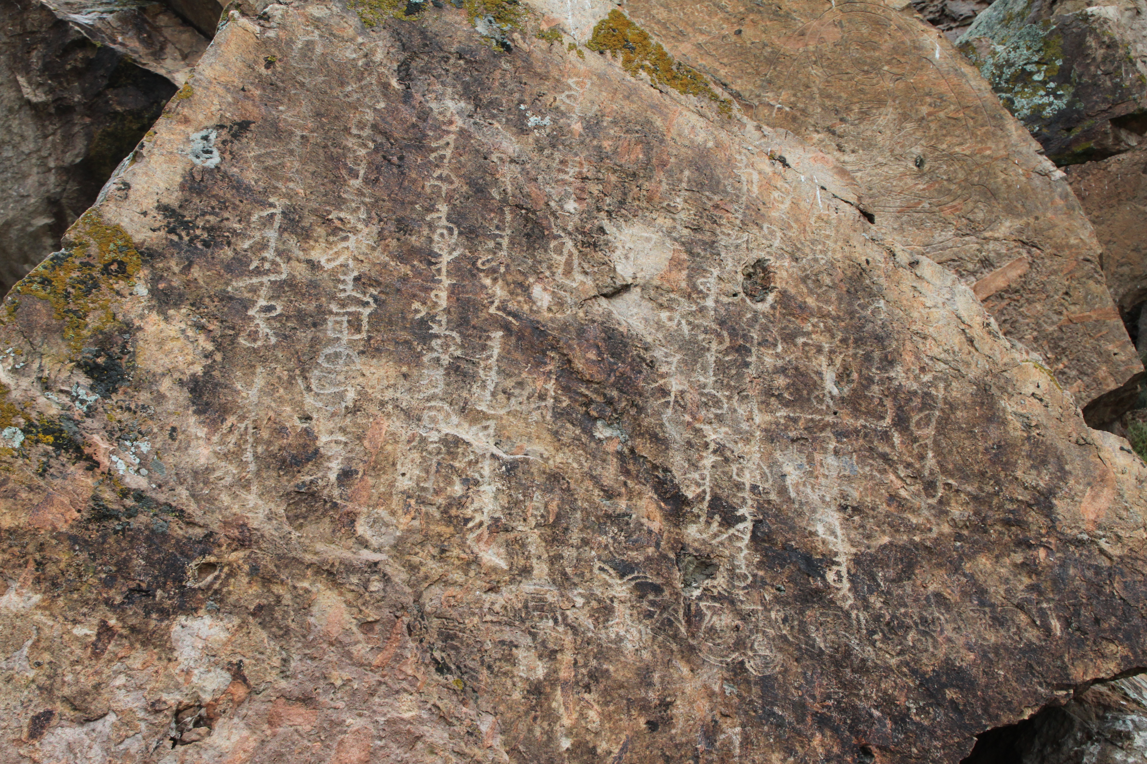 Petroglyphs writings in Tamgaly-Tas site, Almaty Oblast, Kazakhstan